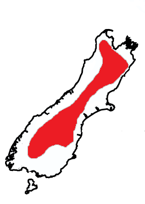 Map of the South Island of New Zealand depicting the distribution of Deinacrida connectens.